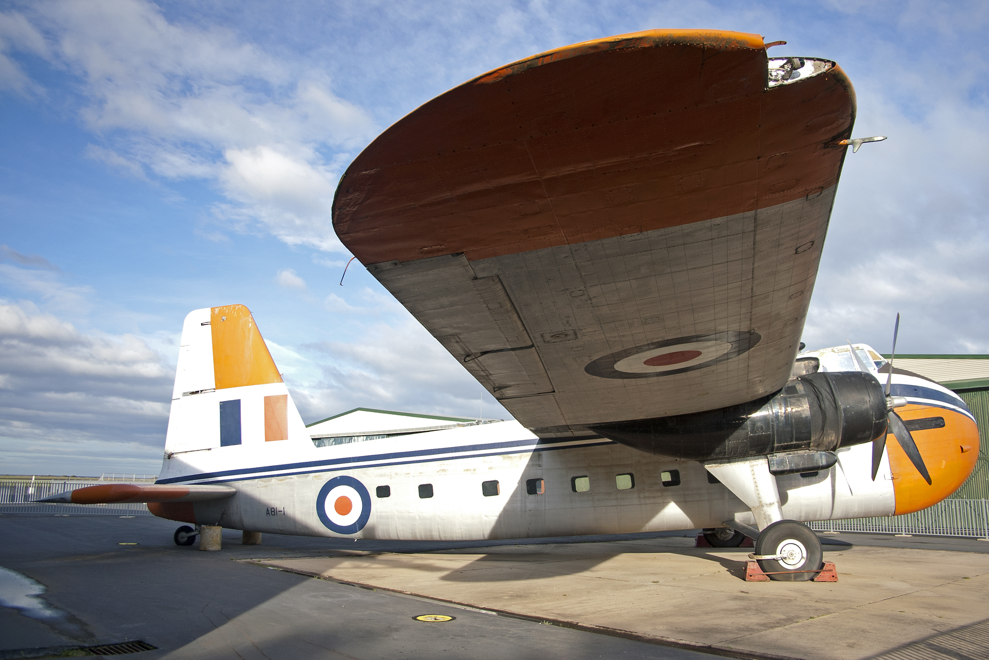 Bristol Freighter A81-1 on display at the RAAF Museum.